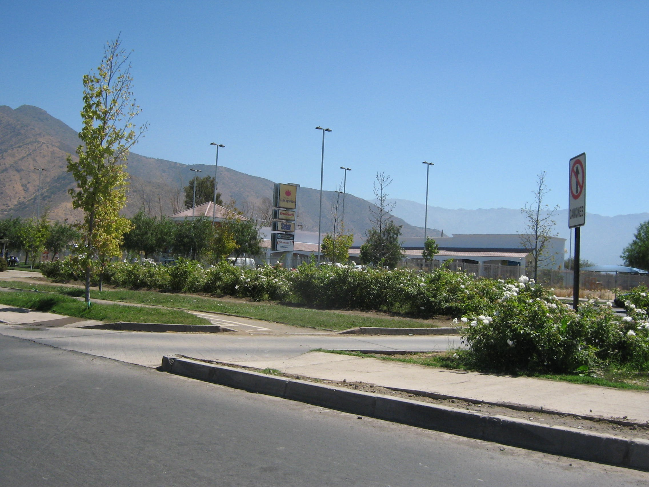 Larapinta Lampa, Chile